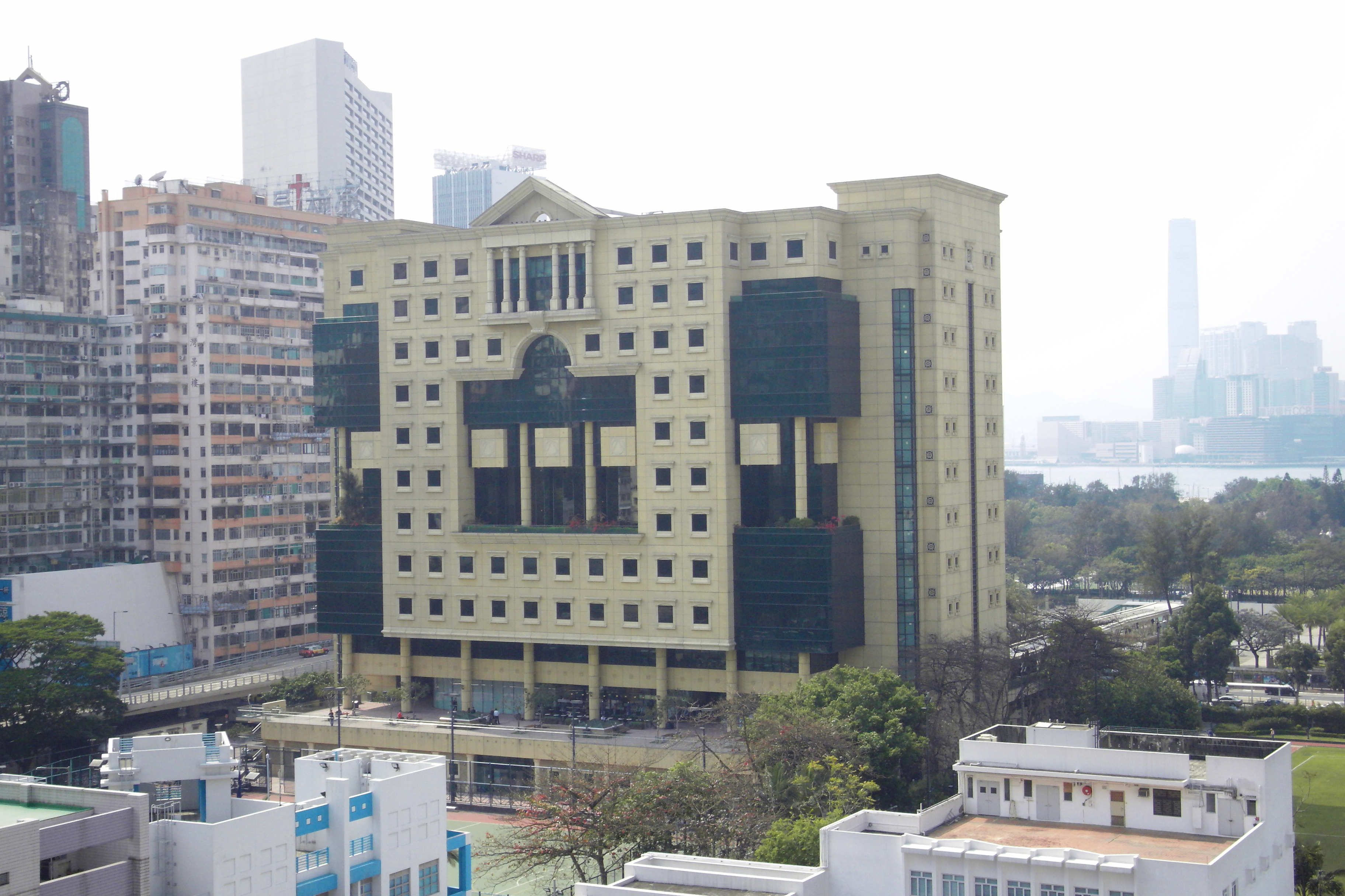 Hong Kong Central Library, viewing from Tung Lo Wan Road